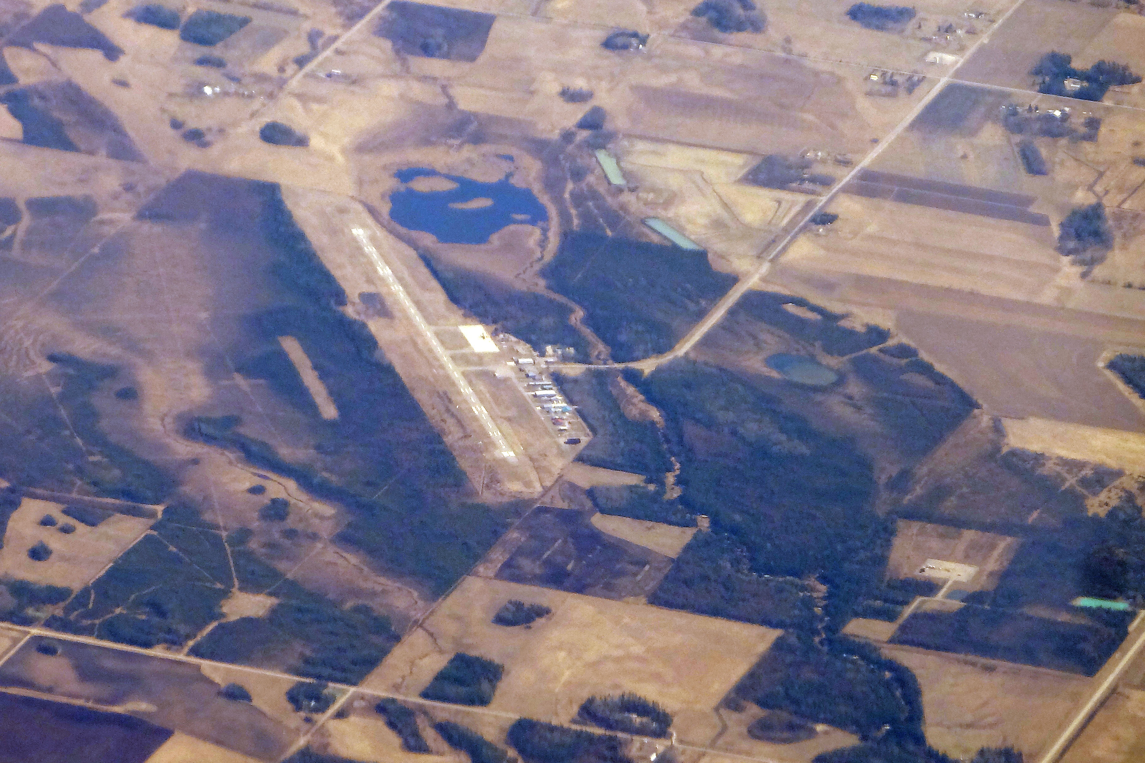 YRM ROCKY MOUNTAINS HOUSE AIRPORT FROM 777 F-GSPJ FLIGHT YVR-CDG